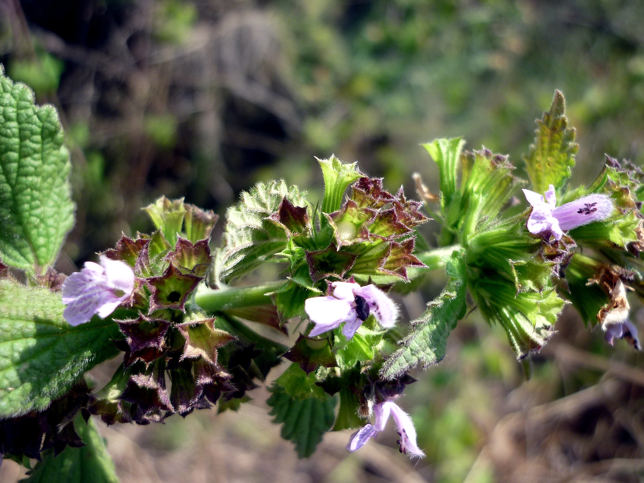 Ballota nigra. In Torà (Segarra-Catalunya). To 580 m. altitude